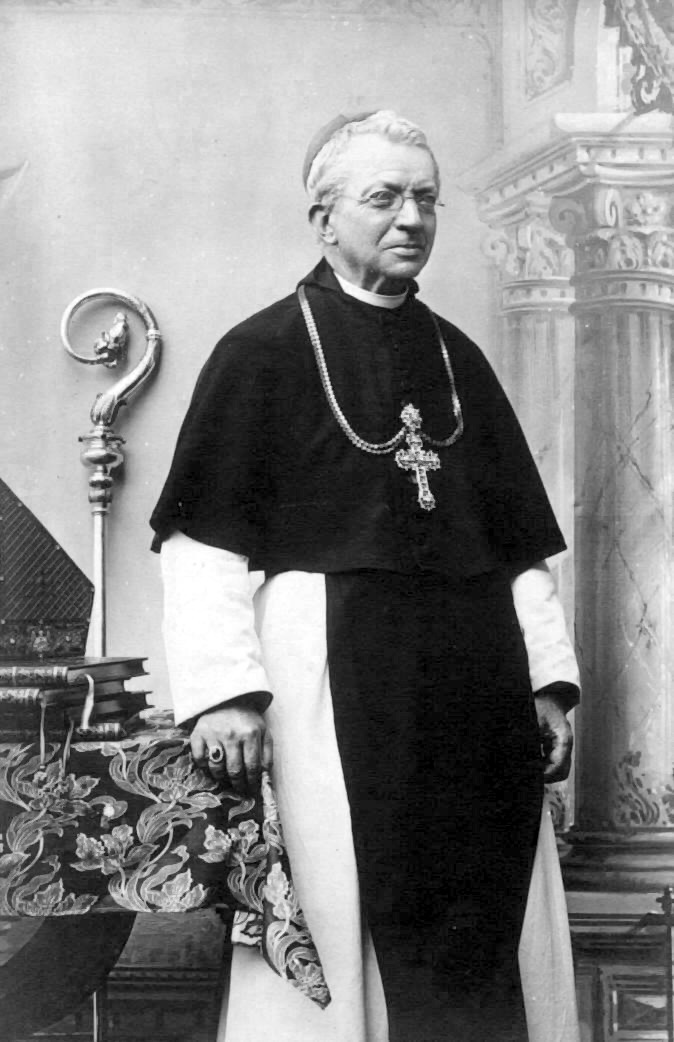 Abbot Amadeus de Bie (1844-1920), Abbot General of the Cistercian Order from 1900 to 1920.